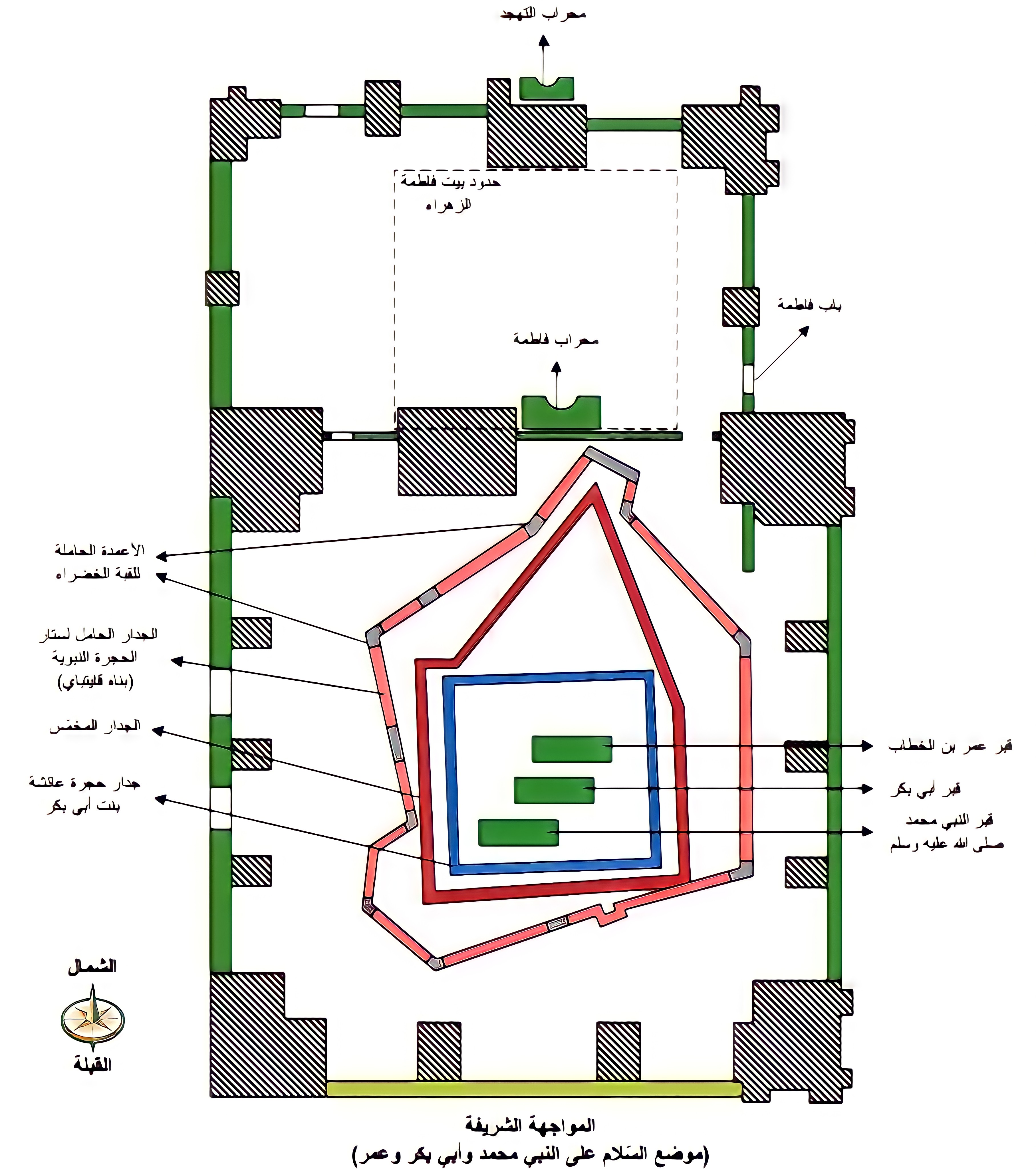 Al-Hujra Drawing